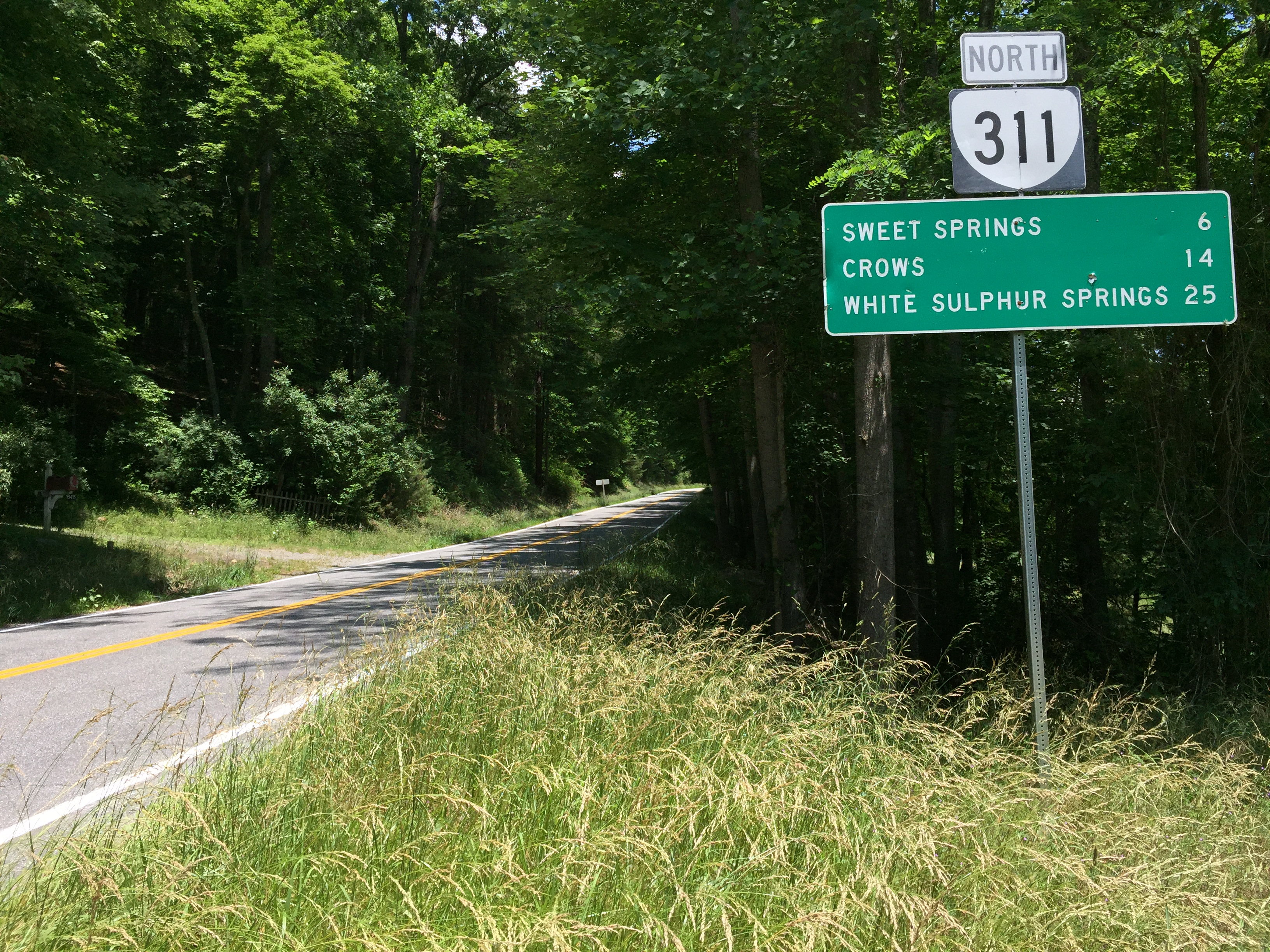 View north along Virginia State Route 311 at Virginia State Route 18 in Paint Bank, Craig County, Virginia